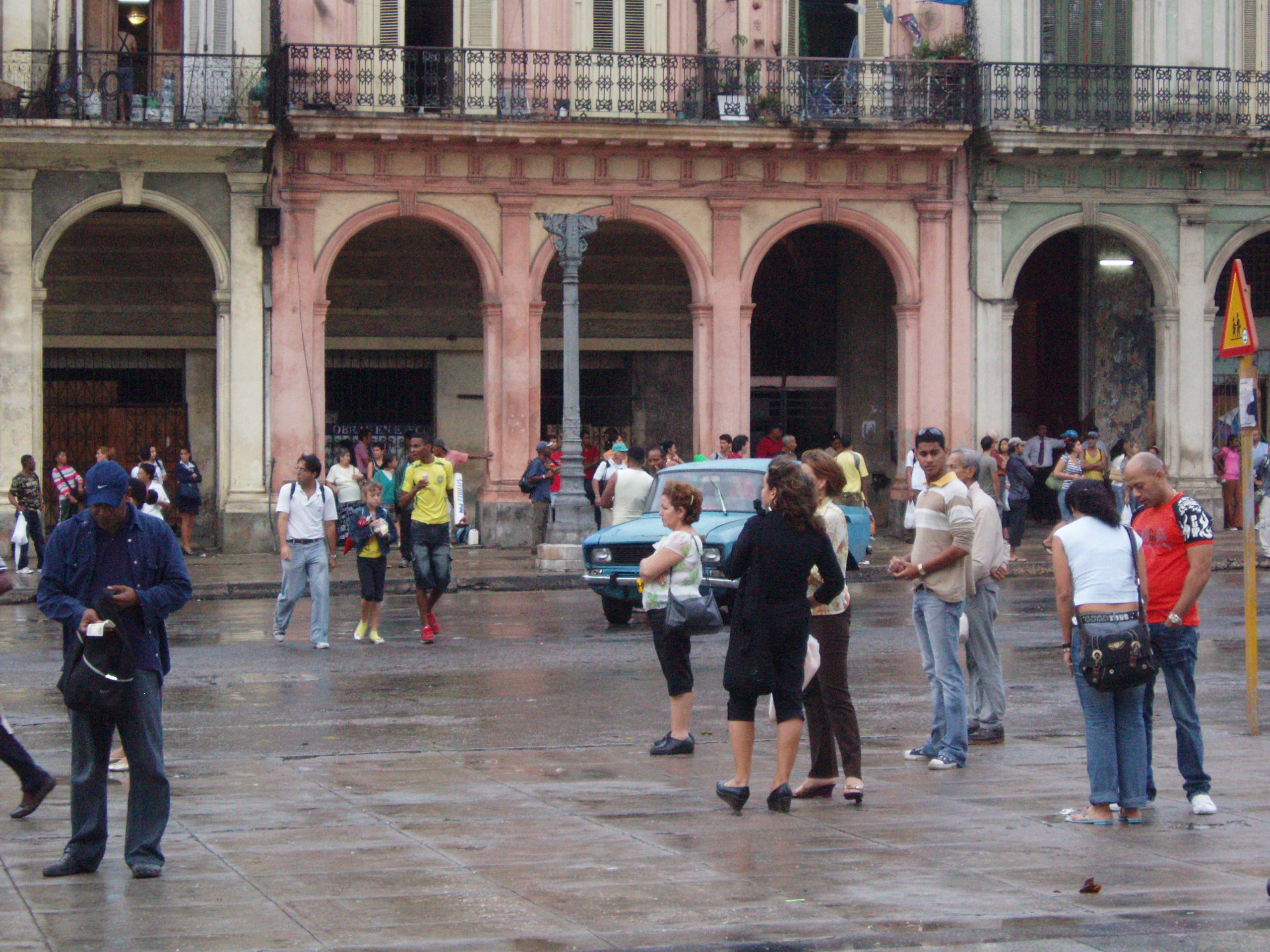 A street at the Old Havana (La Habana Vieja), a UNESCO World Heritage Site.